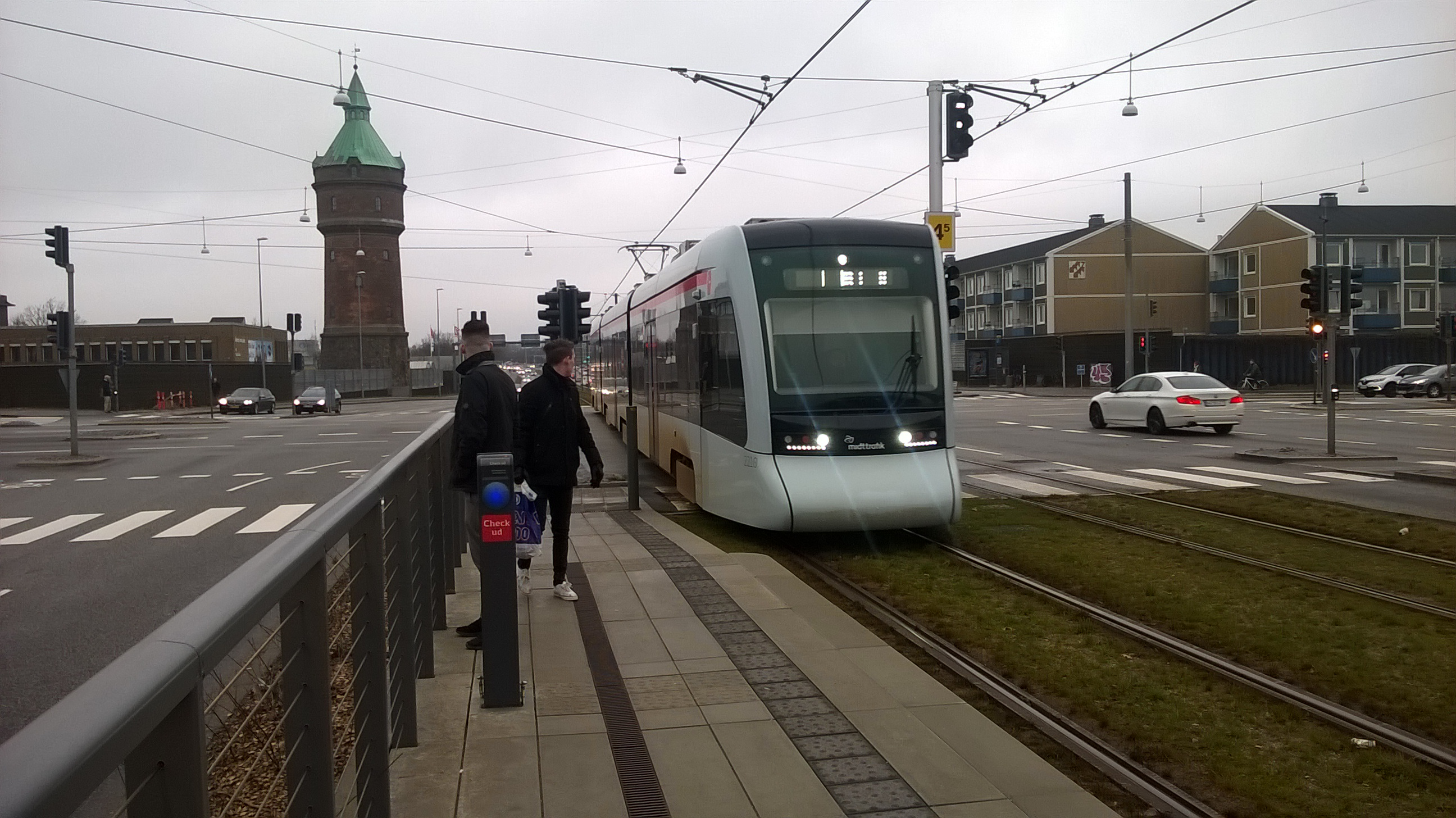 Aarhus Light Rail at Vandtårnet Station.